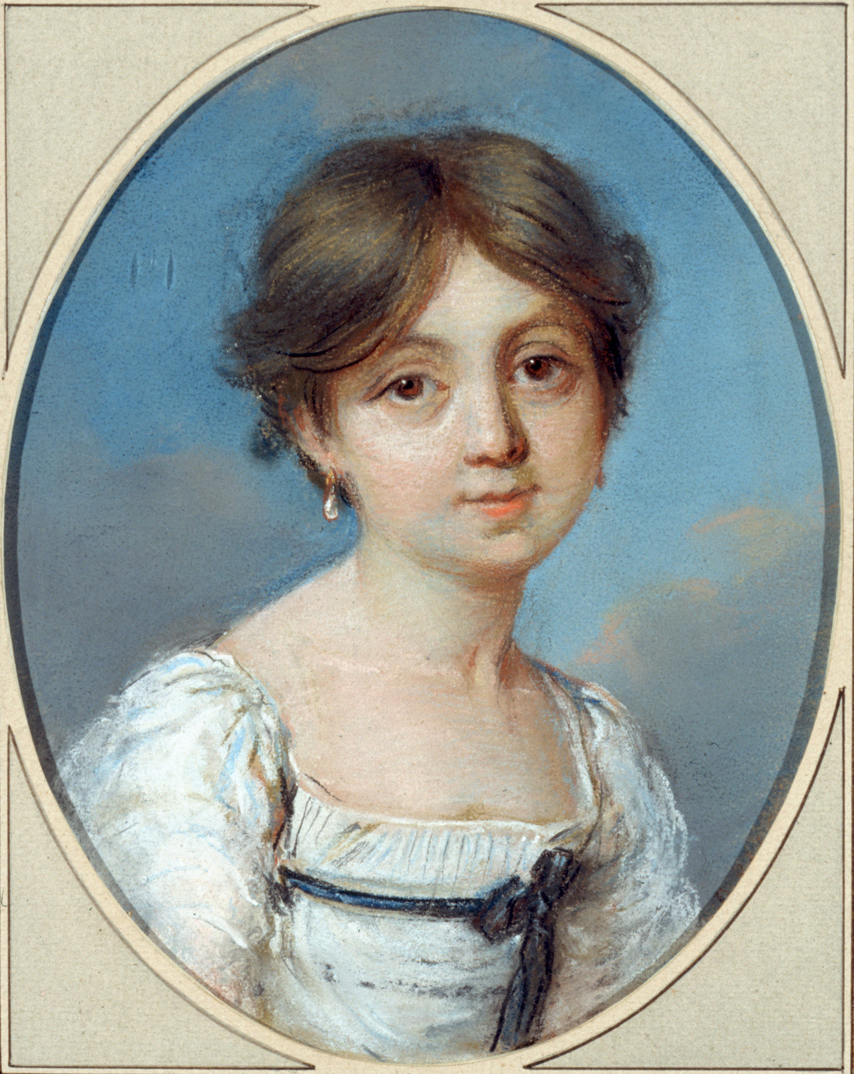 Pastel drawing of George Sand by Marie-Aurore de Saxe.